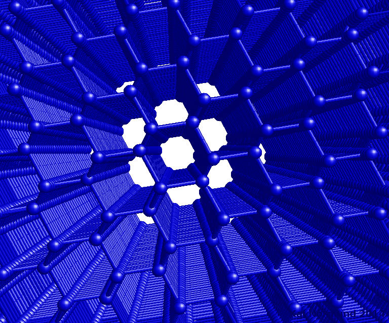 A 15 x 10 x 30 unit Si 110 oriented unit cell, oriented along the 110 crystal direction, to illustrate channeling. Made with rasmol and self-made script.